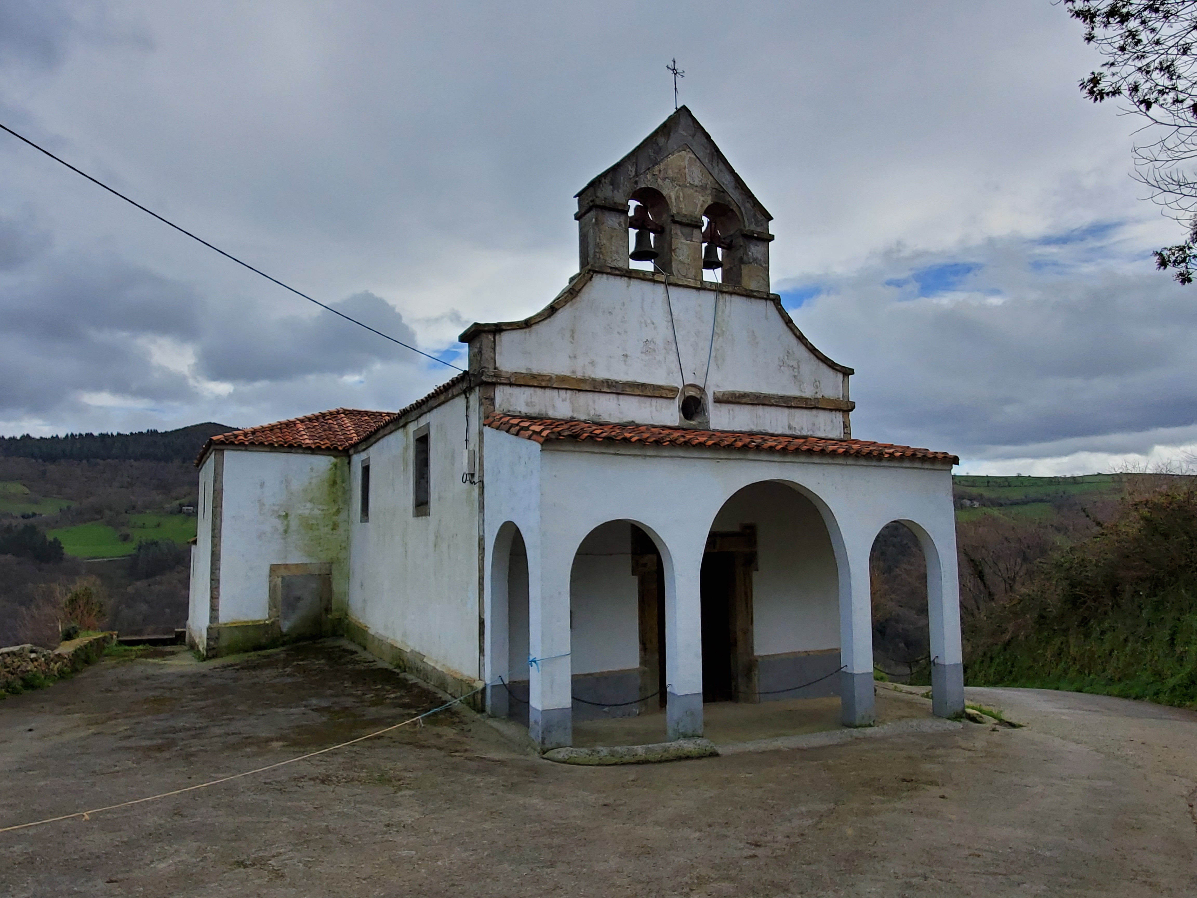 The church of Brañalonga